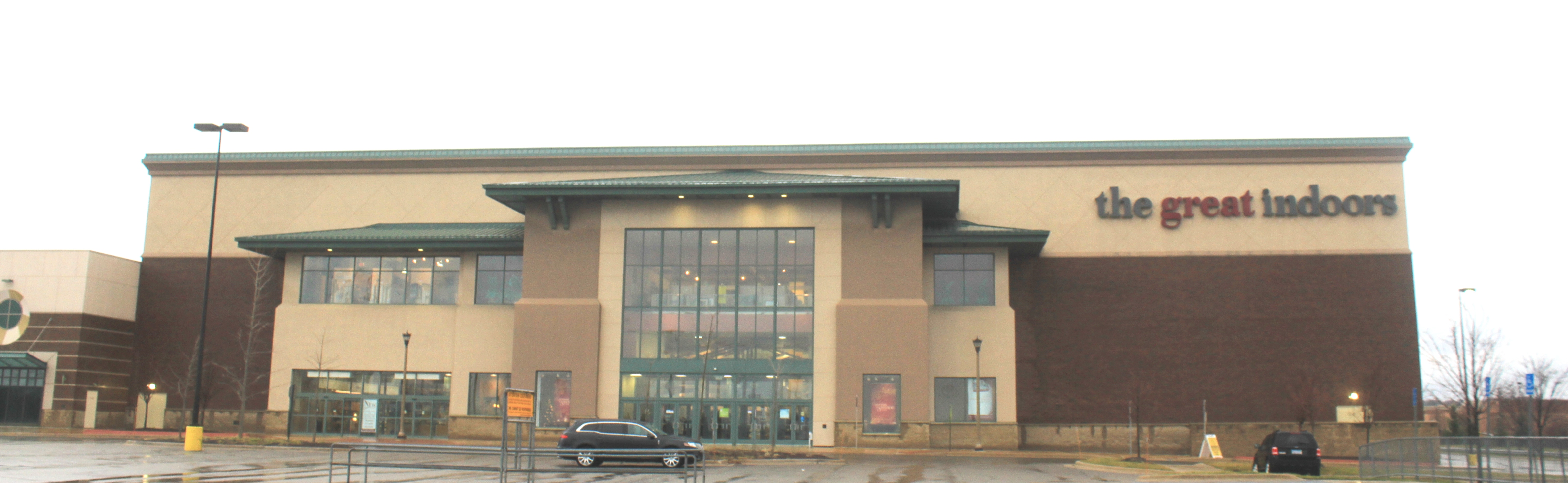 The Great Indoors store, 44075 Twelve Mile Road, Novi, Michigan.